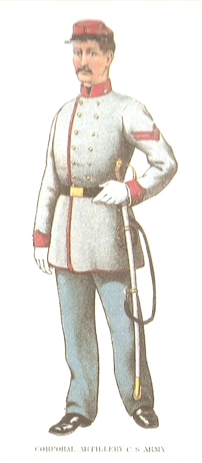 Corporal of the Artillery division of the Confederate States of America Army.